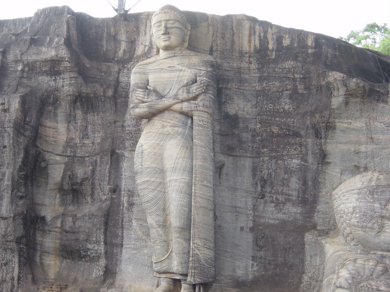 Gal Vihariya - 2: The Upright statue of the Buddha. The Gal Vihariya in Polanaruwa had all three postures of the Buddha carved out of a single rock. A World Heritage site.